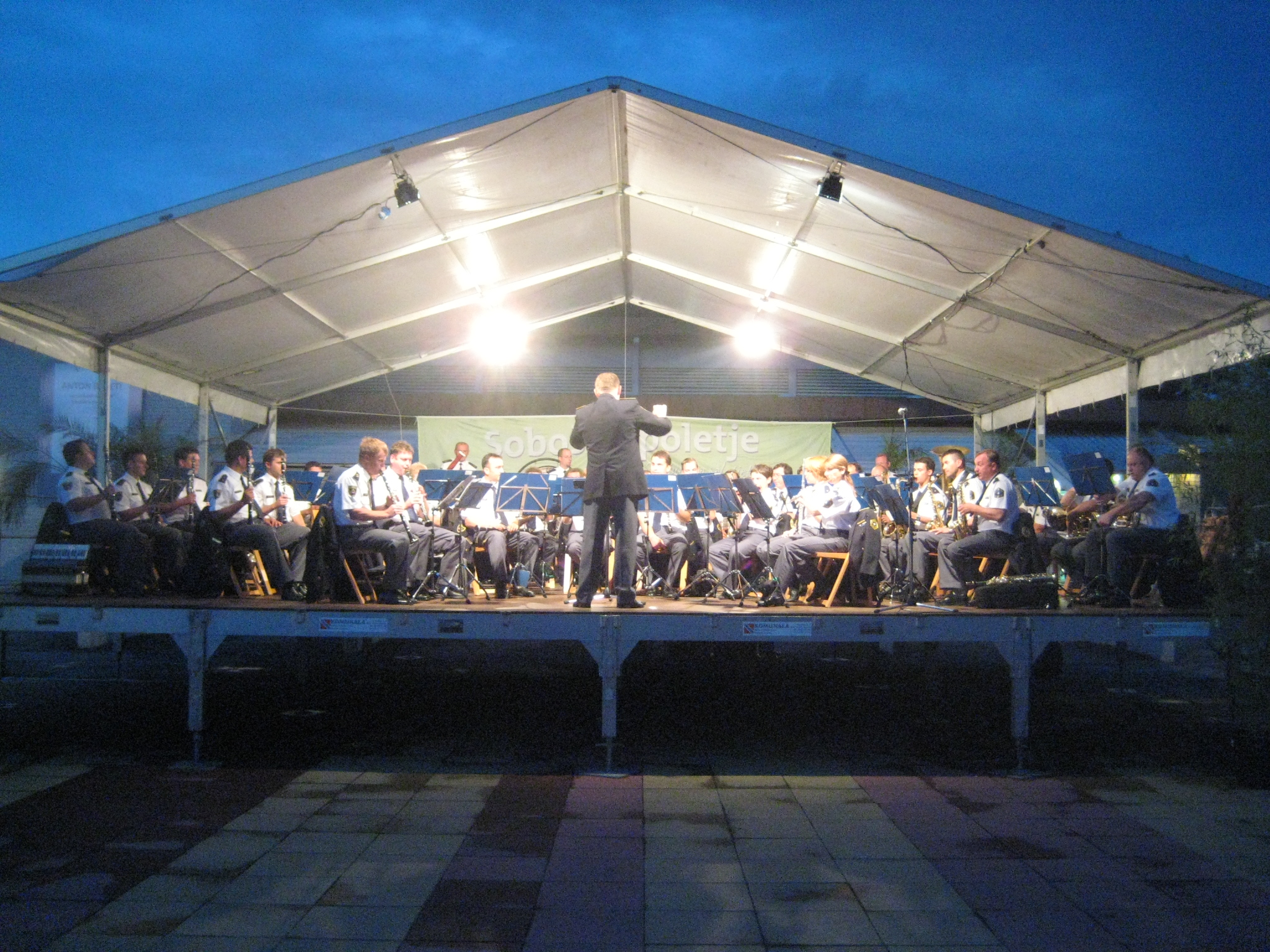 Slovenian police orchestra